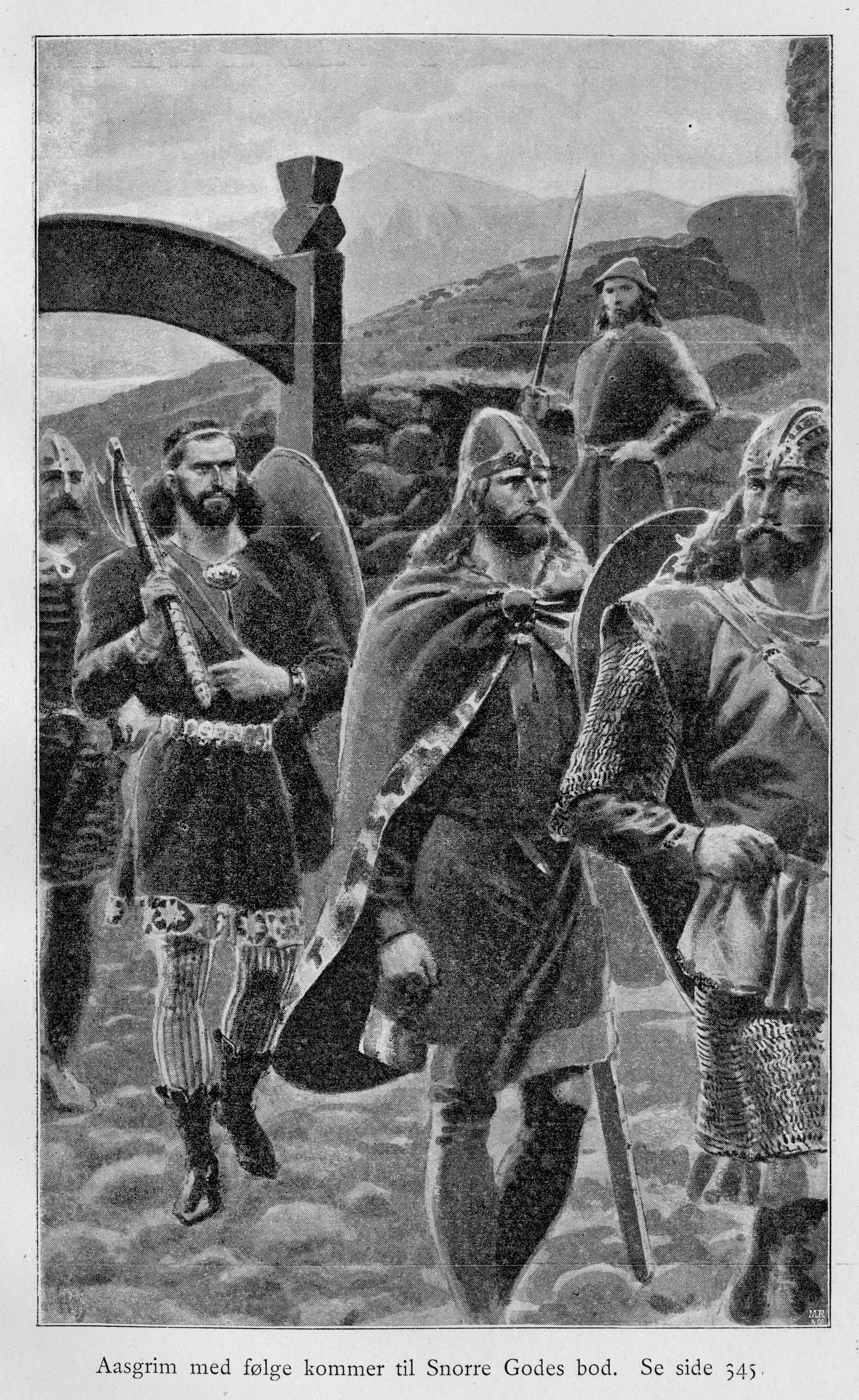 From Njáls saga: Aasgrim follows Snorri Goði to his booth. Illustration from "Vore fædres liv" : karakterer og skildringer fra sagatiden / samlet og udggivet af Nordahl Rolfsen ; oversættelsen ved Gerhard Gran., Kristiania: Stenersen, 1898.